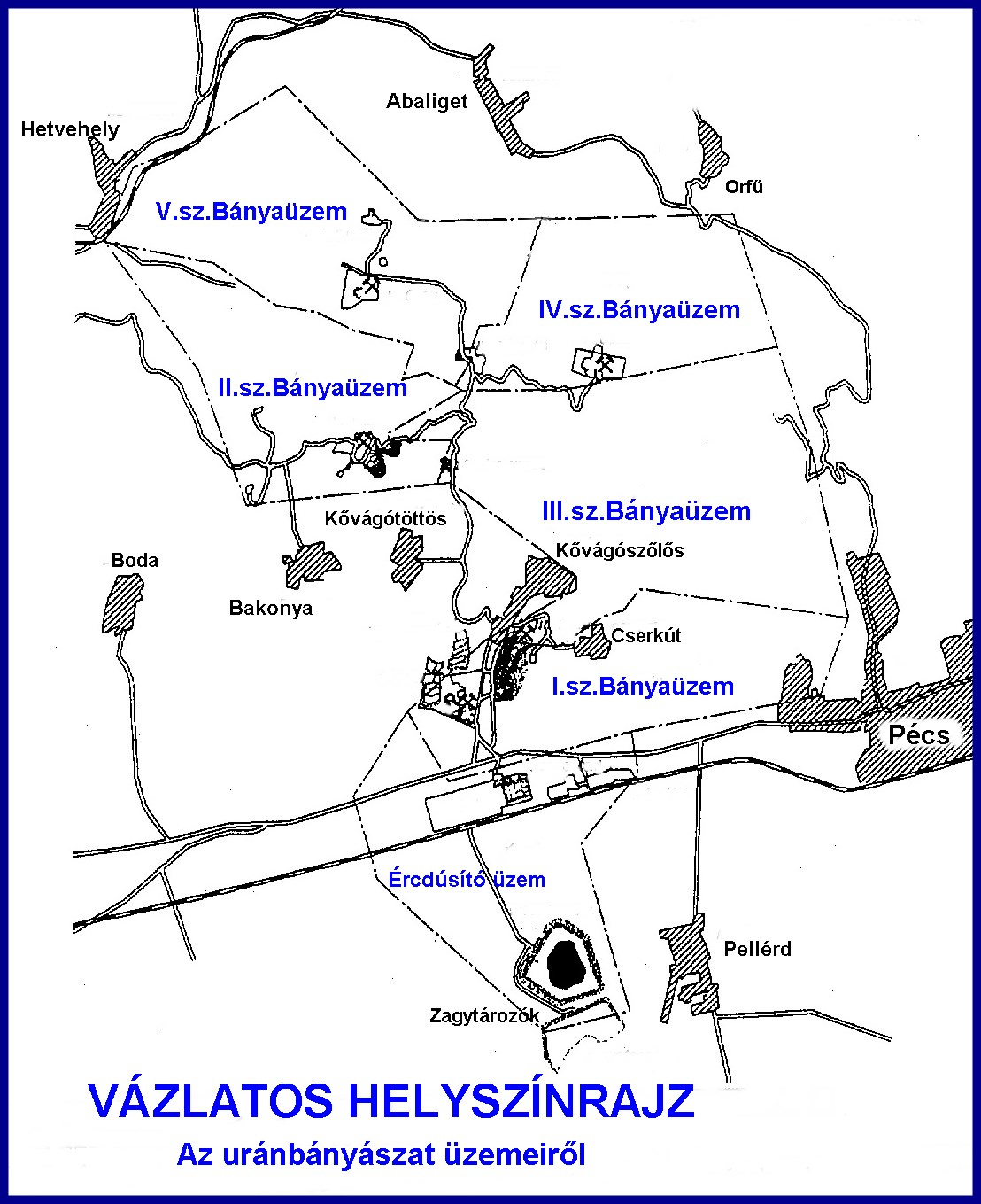 Site map of uranium mining plants - before 1996, and after 1956 (the year uranium mining in Hungary started) - in Baranya County, Hungary.